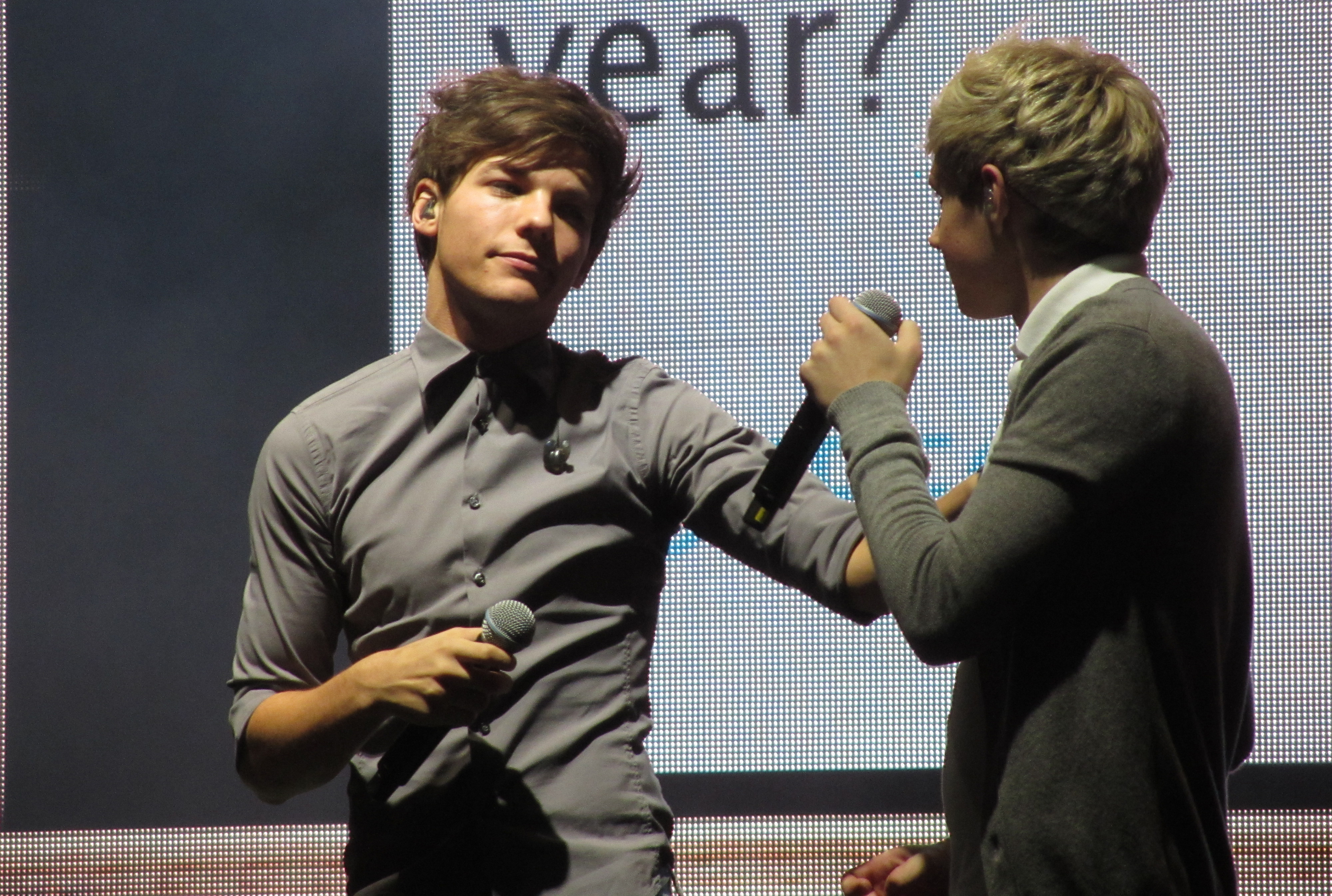 Louis Tomlinson and Niall Horan, One Direction, Clyde Auditorium, Glasgow, Saturday 14 January 2012